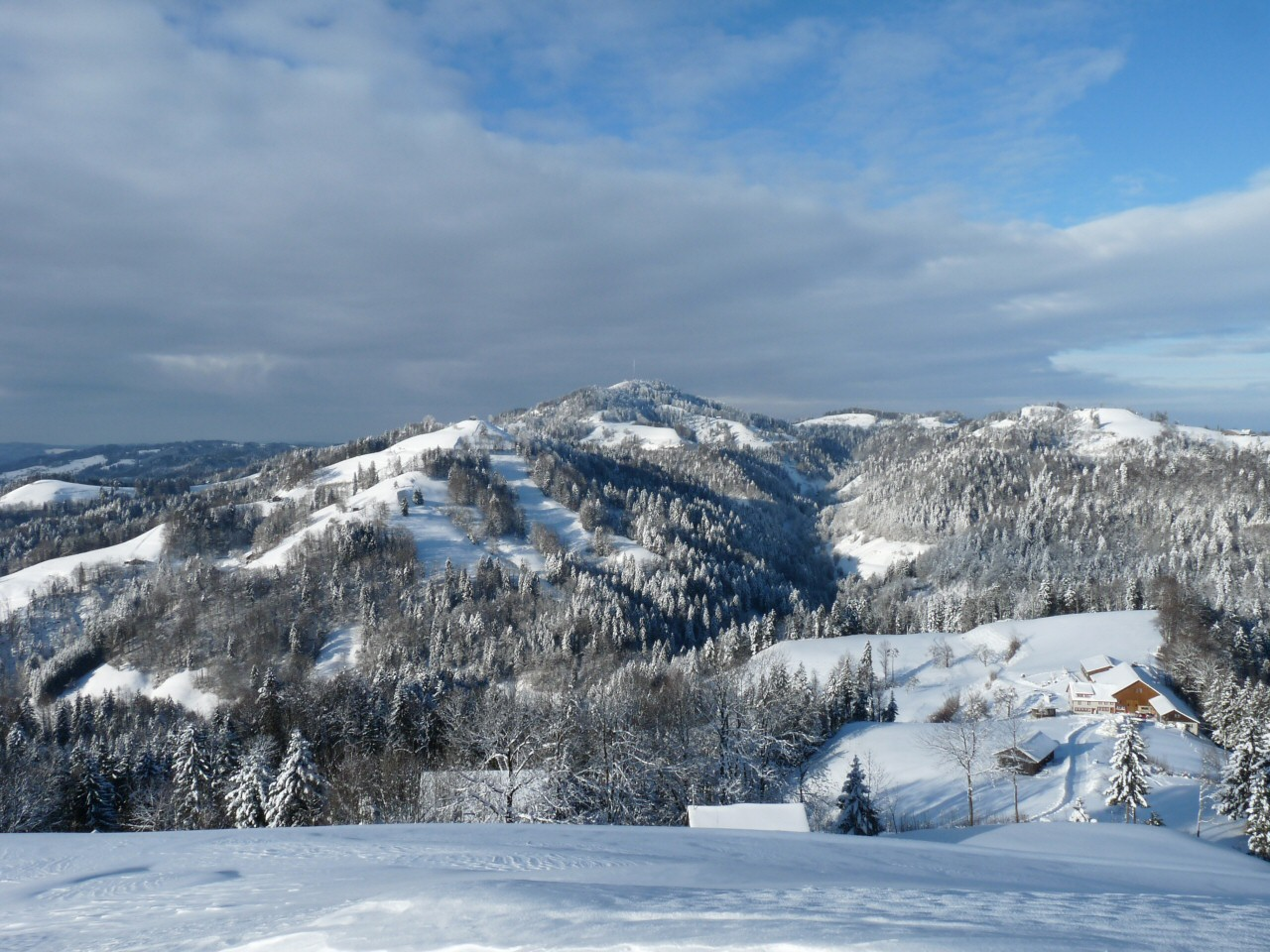 View from Rütiwis to Hörnli